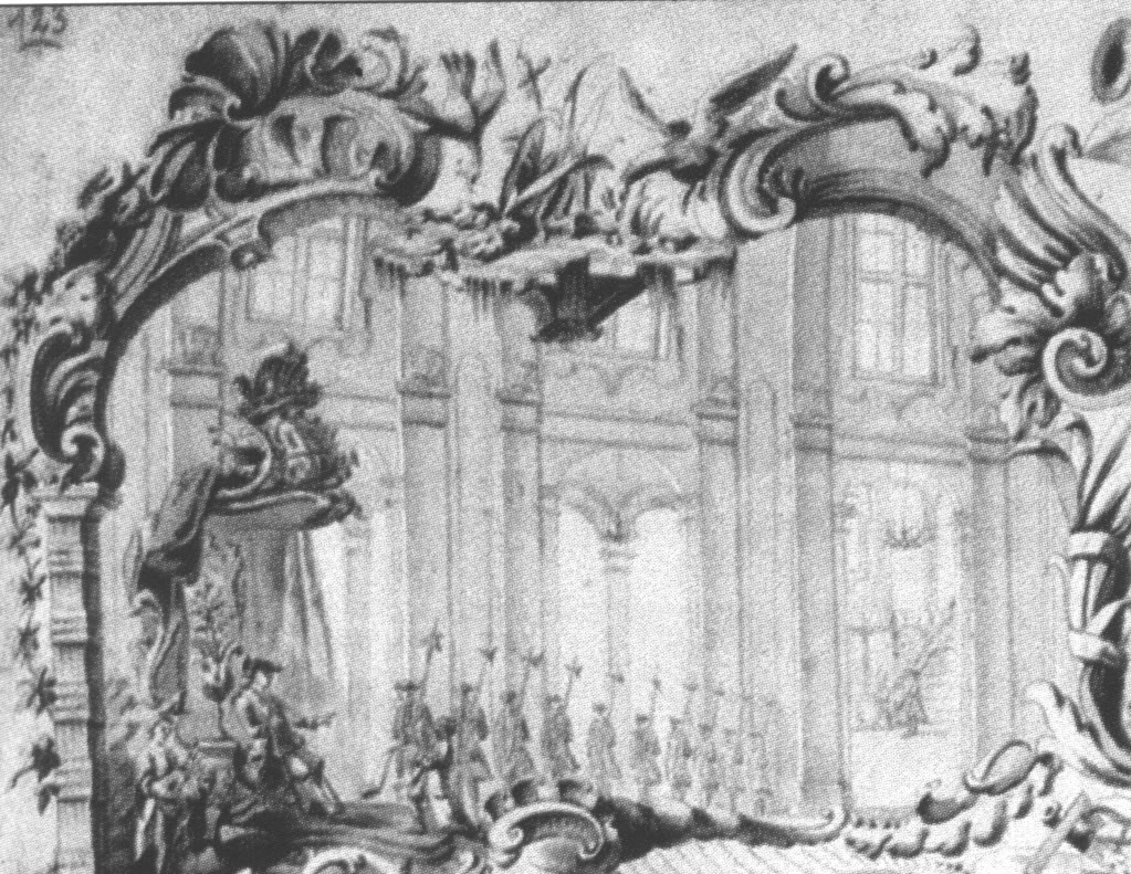 Interior aspect of the Viceregal Palace in Lima. Can be seen in it the Halberdiers of the Royal Infantry Guard, and the throne of the Viceroy of Peru. Drawing made in the epoch of the Viceroy Manuel de Amat y Junient (1772-1776)